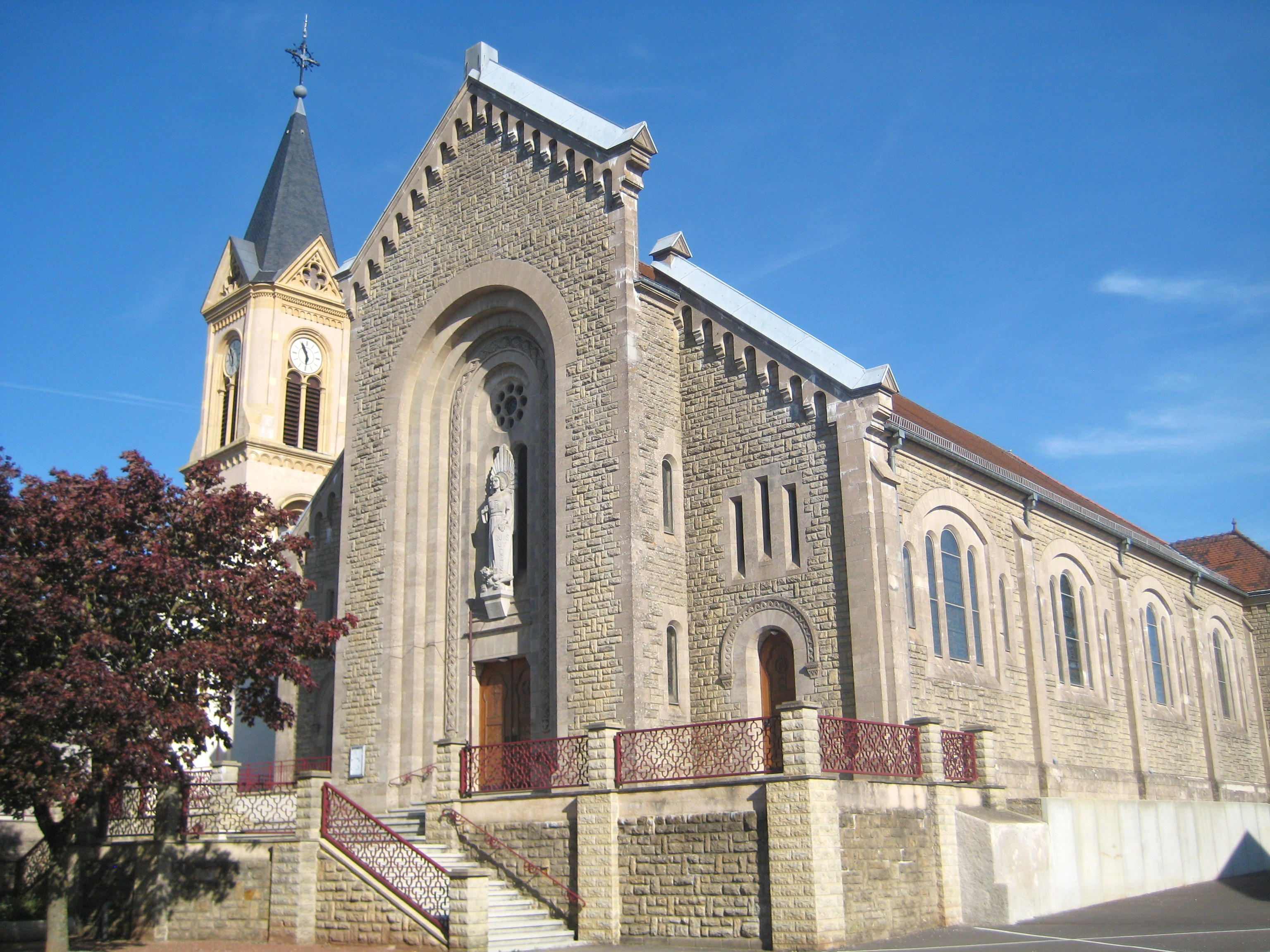 Description eglises Angevillers Date12 August 2011Sourcemon appareil photoAuthorAimelaimePermission (Reusing this file) eglises Angevillers